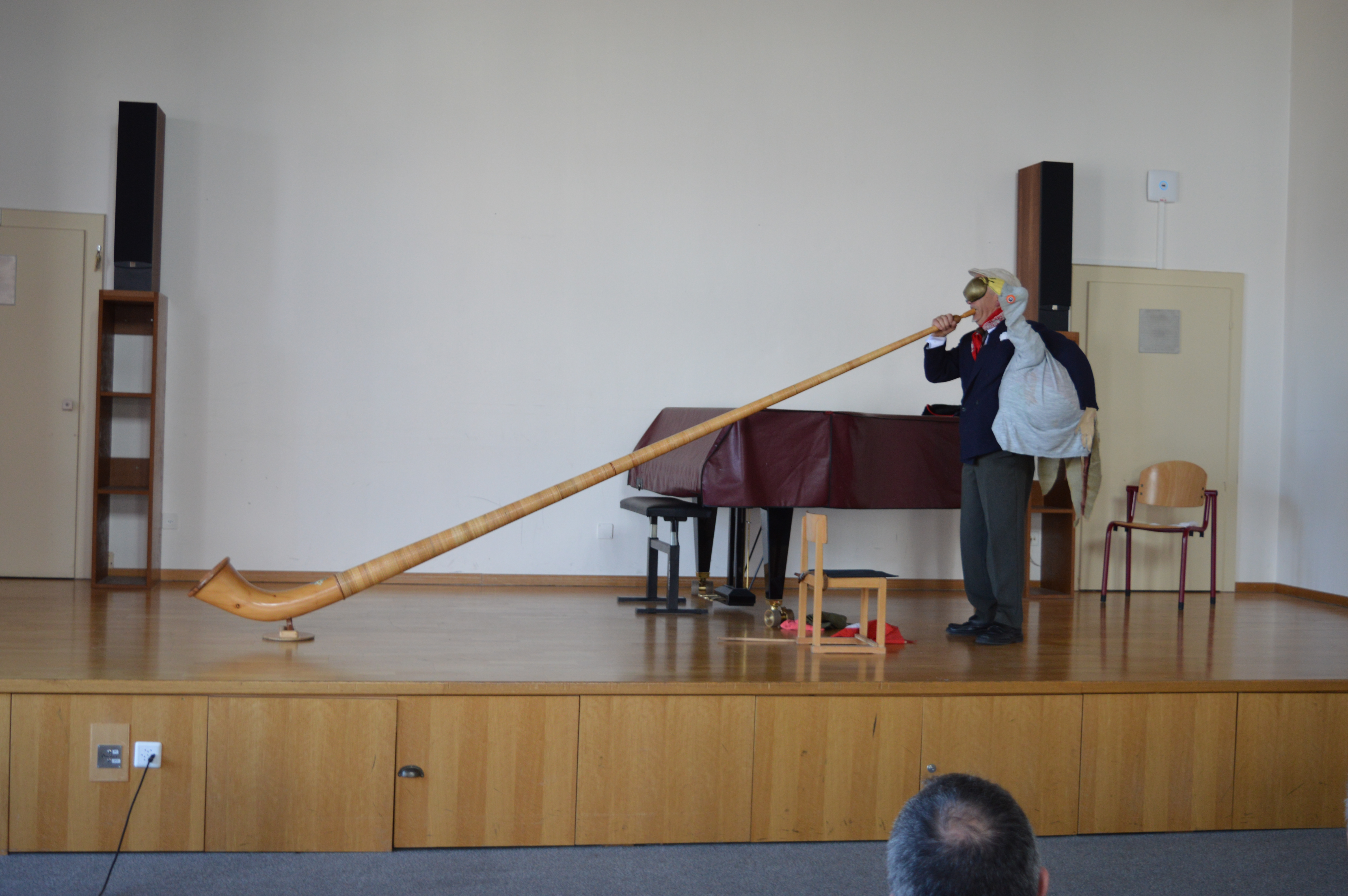 Jean-Claude Heger playing alp horn during the conclusion of the third international conference on Esperanto teaching, La Chaux-de-Fonds, canton of Neuchatel, SwitzerlandEsperanto: Jean-Claude Heger ludante alpokornon dum la ferma ceremonio de la tria konferenco pri Esperanto-instruado, La Chaux-de-Fonds, Kantono Neŭŝatelo, Svislando